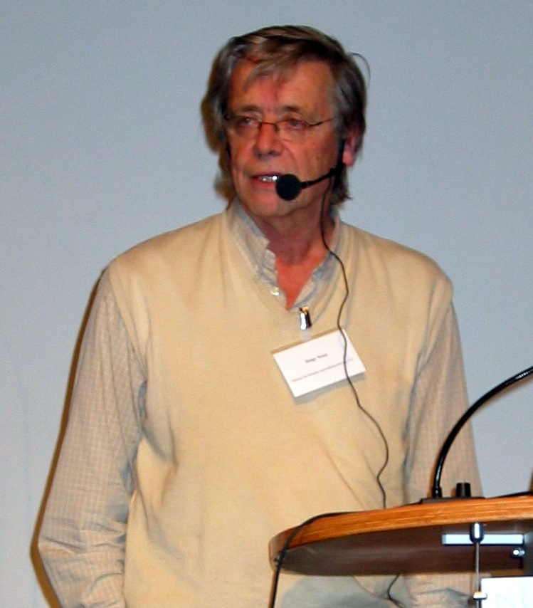 Helge Waal, speaking at national LAR (opioid substitution) conference 2006. Helge Waal, på norsk LAR-konferanse 2006.